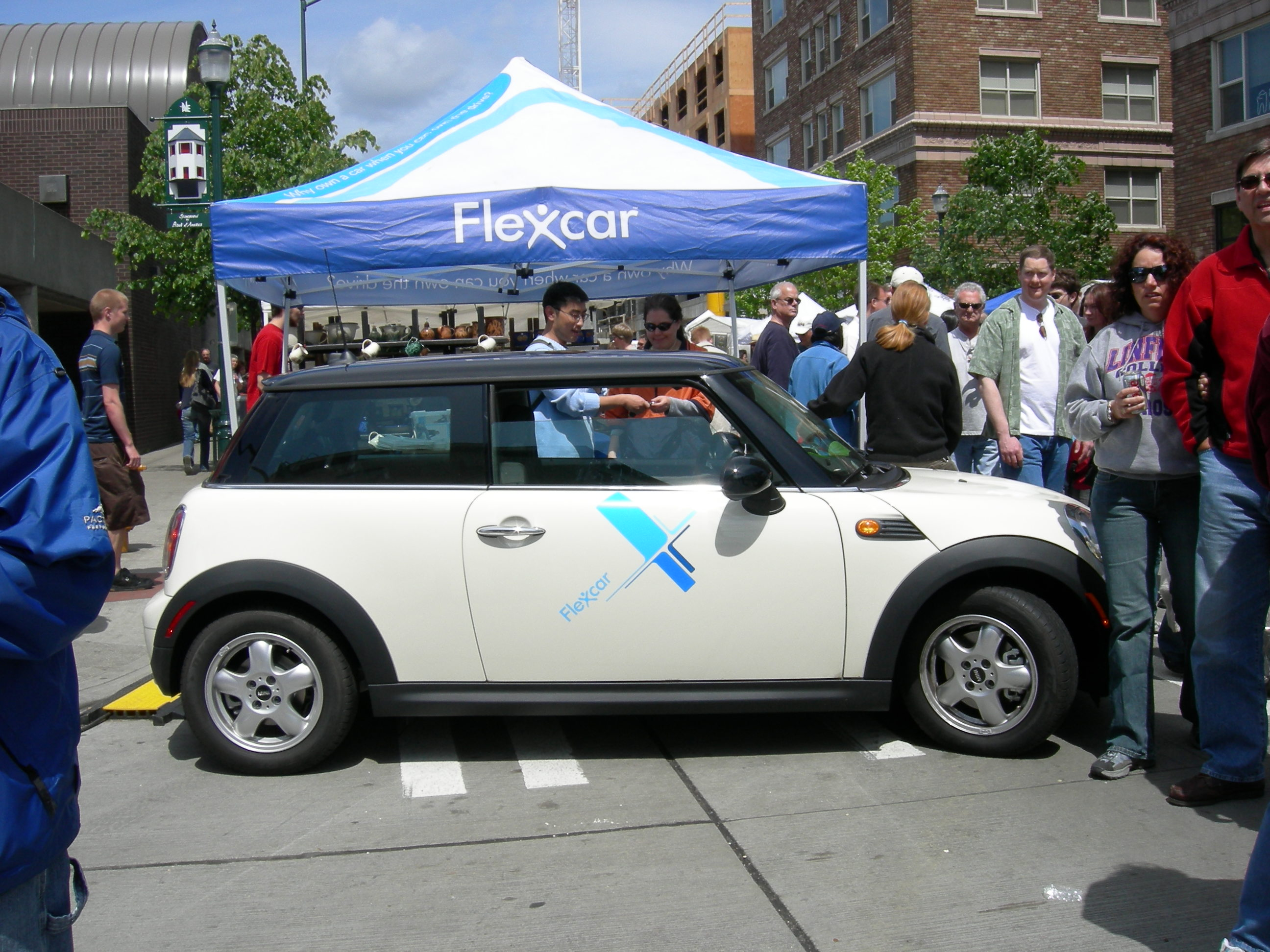 Flexcar (carsharing) booth at University District Street Fair, University District, Seattle, Washington.